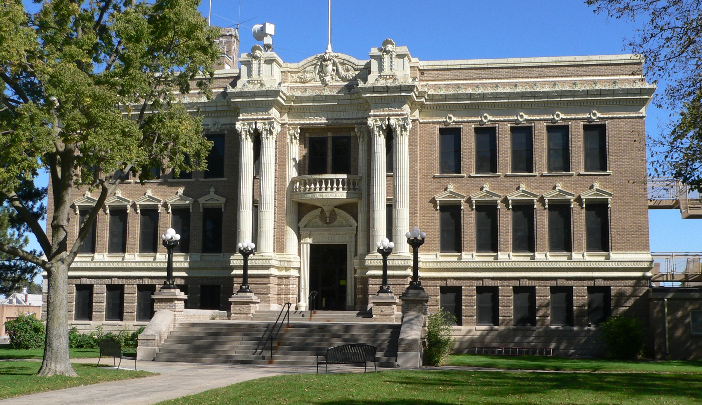 Valley County Courthouse in Ord, Nebraska; seen from the west. The Beaux-Arts building was constructed in 1920. It is listed in the National Register of Historic Places.